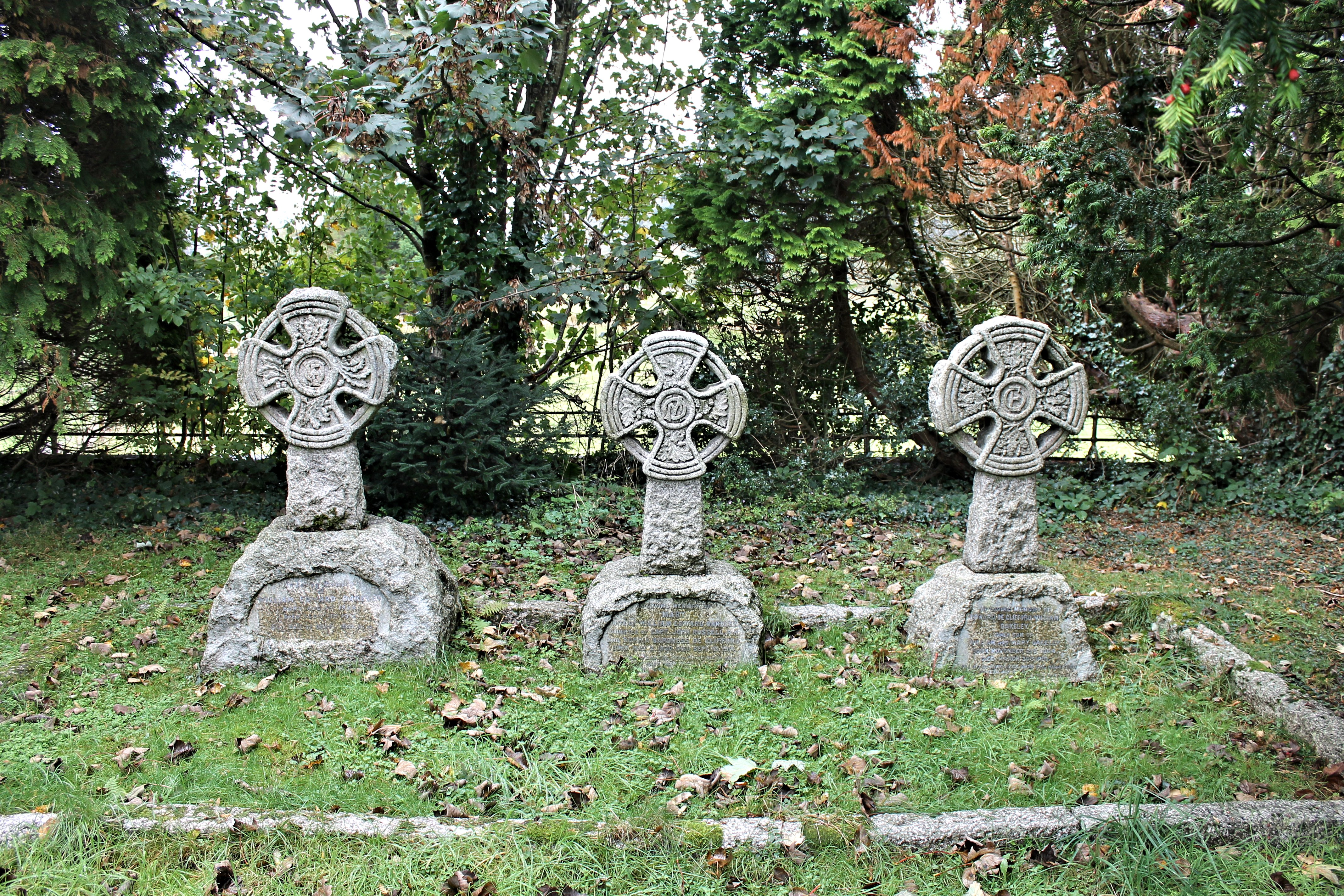 Saint Twrog's Church is in the village of Maentwrog in the Welsh county of Gwynedd, lying in the Vale of Ffestiniog, within the Snowdonia National Park.